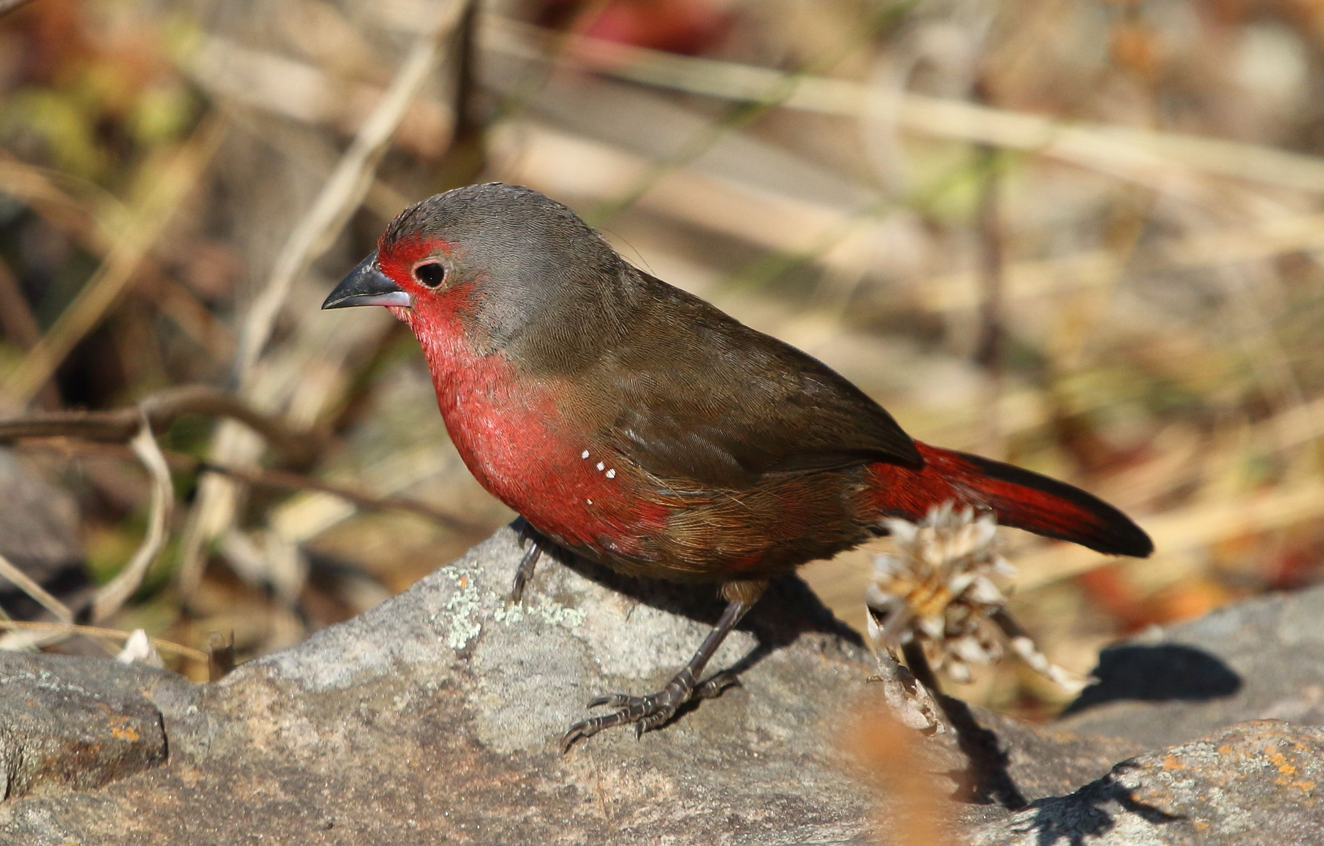 Male African Firefinch Lagonosticta rubricata at Cumberland Nature Reserve, KwaZulu-Natal. Cropped version of